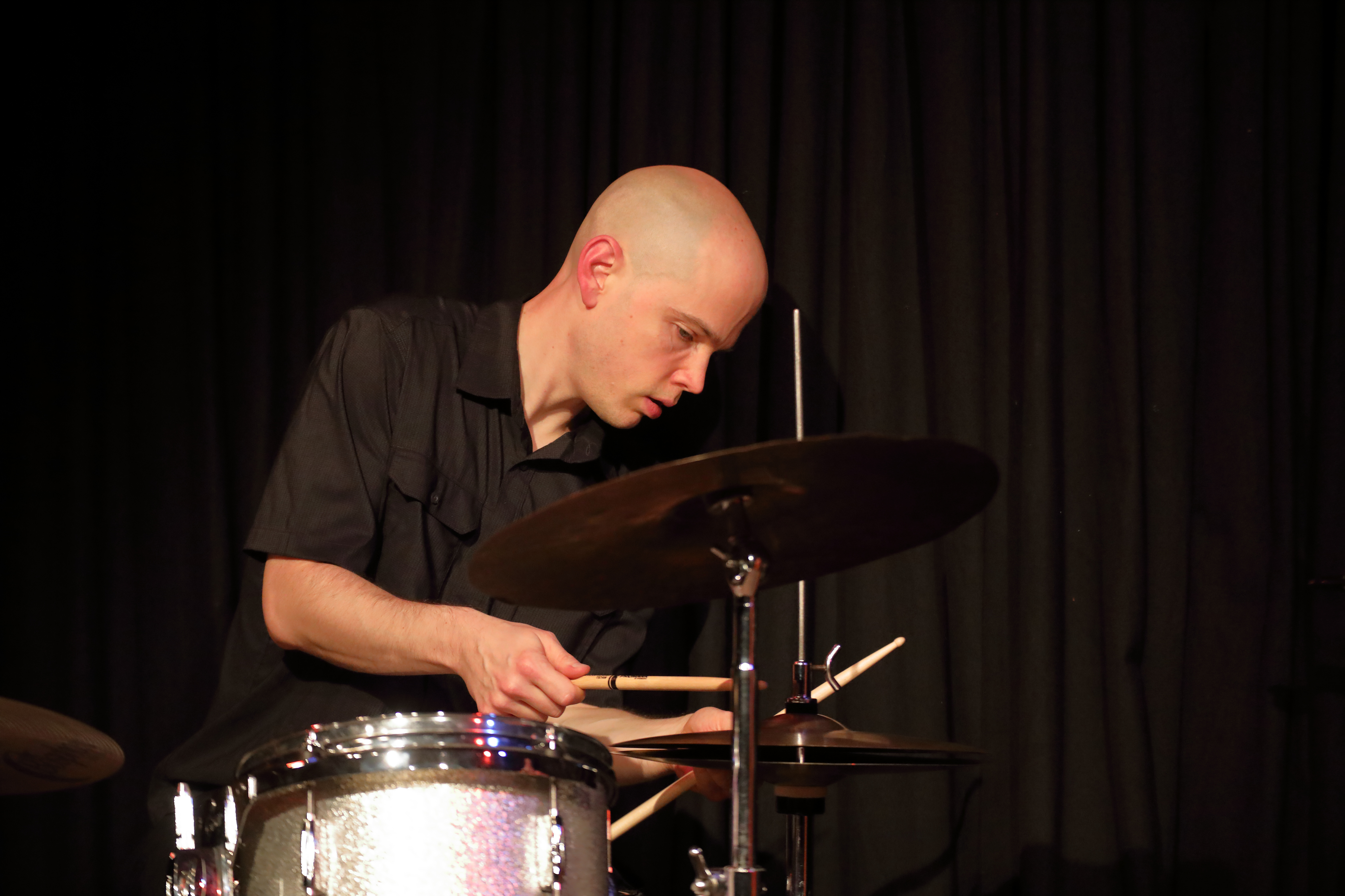 The Rodrigo Amado This Is Our Language 4TET at Club W71, Weikersheim. The members are Rodrigo Amado (sax), Joe McPhee (sax), Kent Kessler (db) & Chris Corsano (dr).